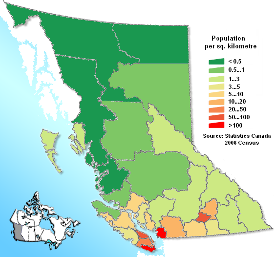 Population density by Census Divisions from 2006 Census.